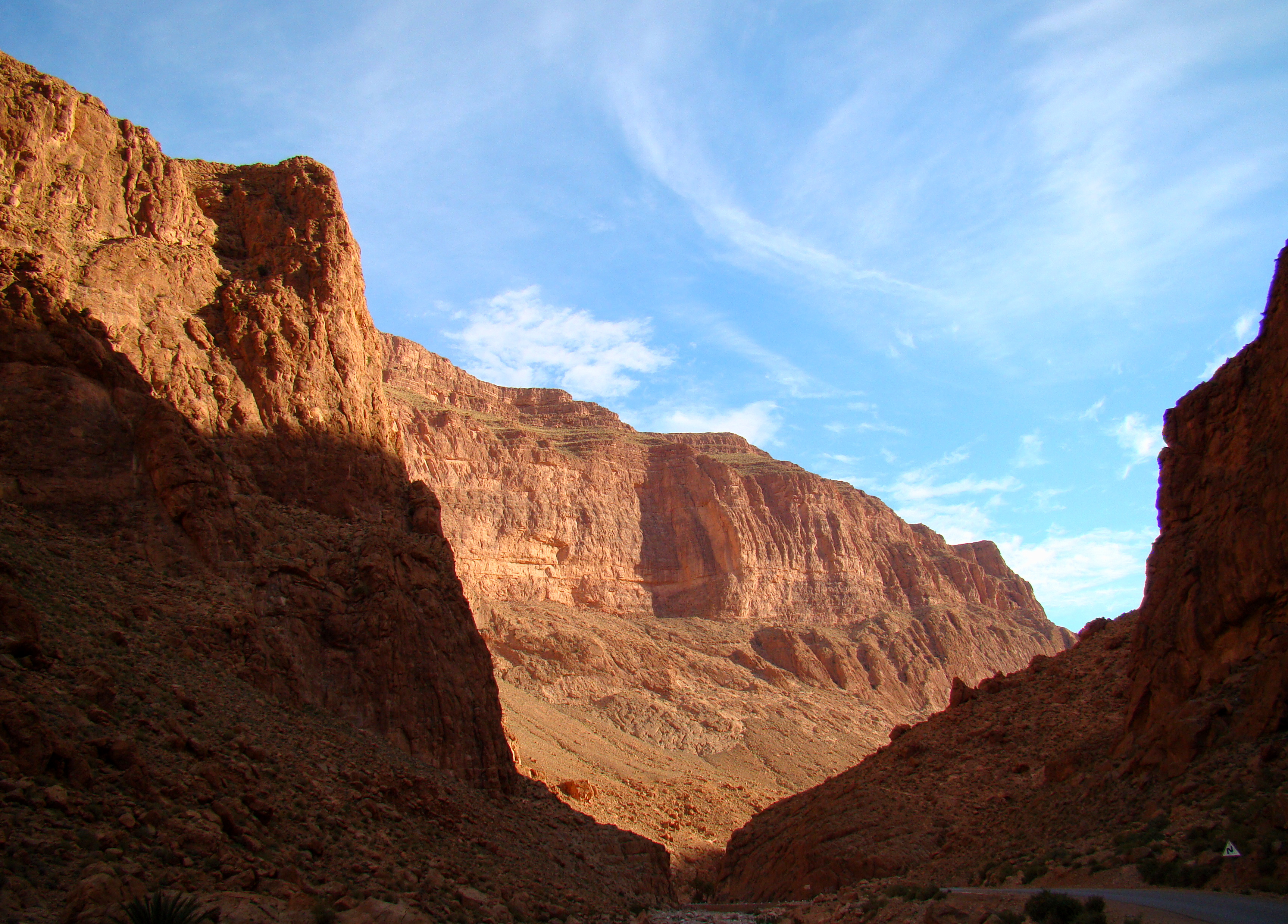 The Todra Gorge seen upwards from above the narrowest bit at the opening.